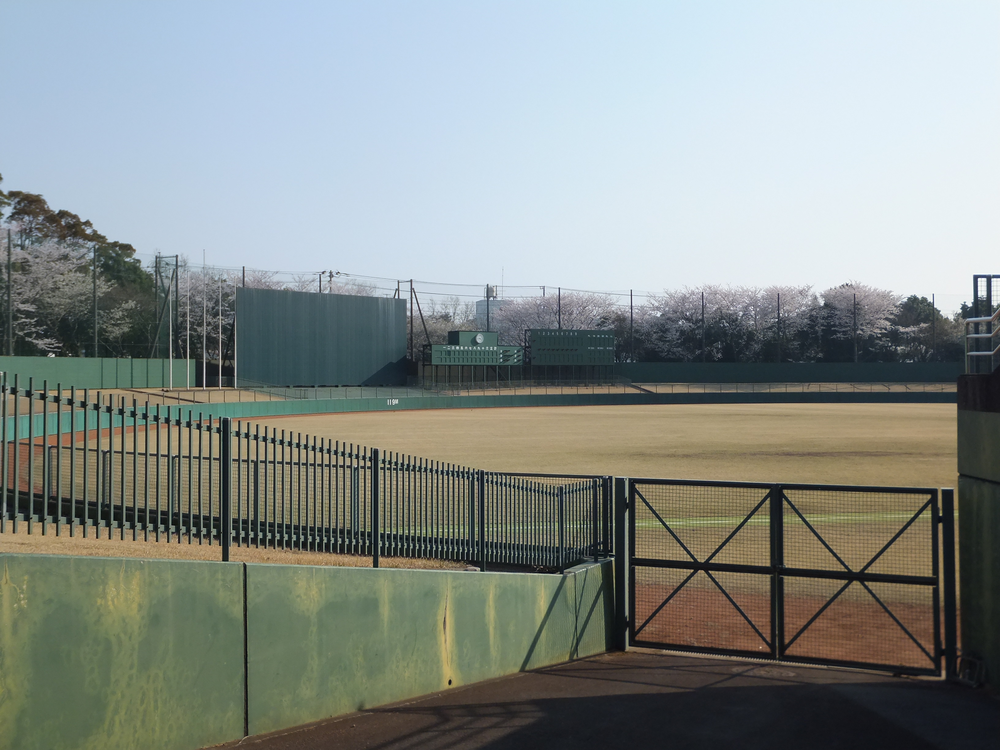 Chiba prefectural Aoba no mori Baseball Studium at Chiba, Chiba, Japan.